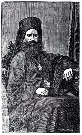 Nikodimos Konstantinidis